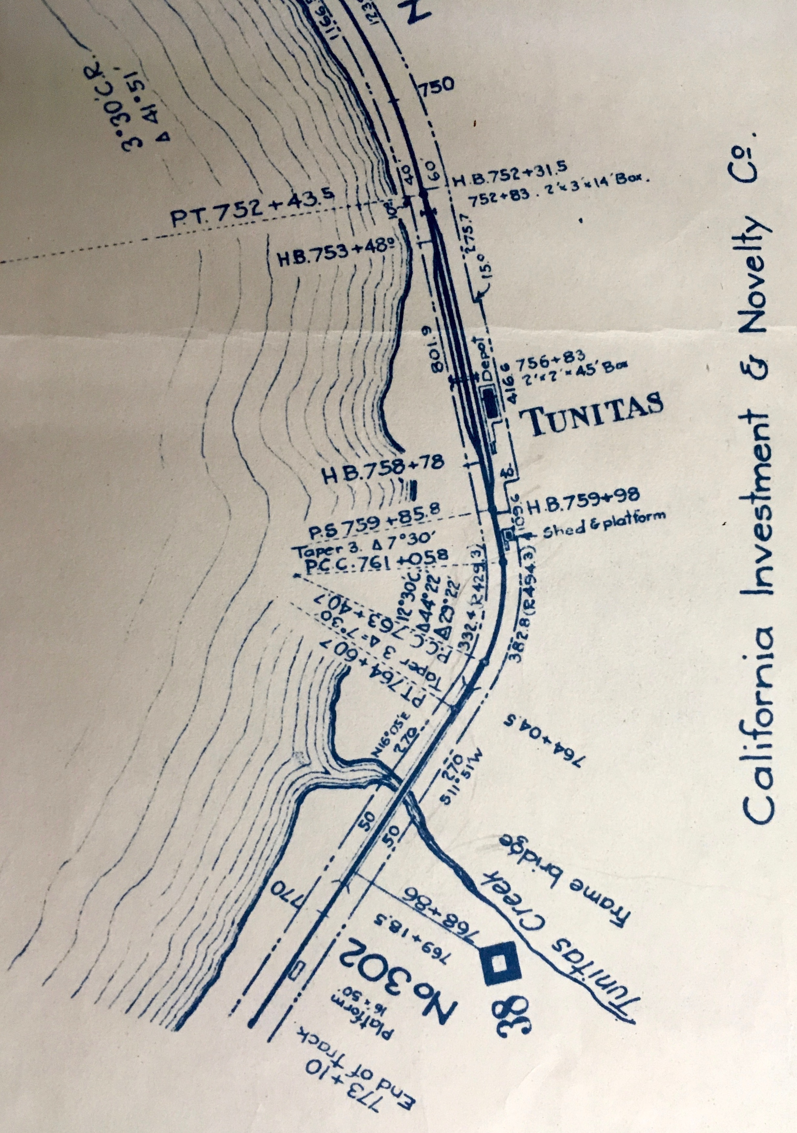 Terminus of the line which was plan to continue on to Santa Cruz